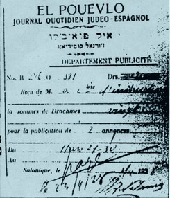 Puevlo Newspaper Document